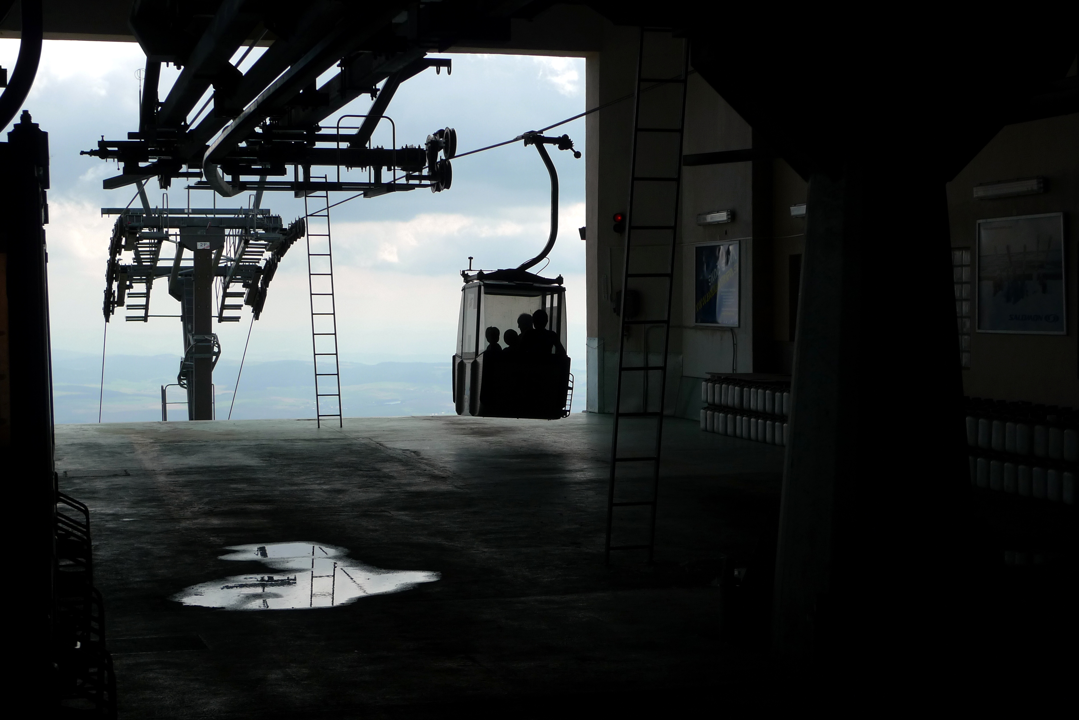 Gondola lift Tatranská Lomnica–Skalnaté pleso (upper station). Česky: Oběžná kabinková lanovka v úseku Tatranská Lomnica–Skalnaté pleso (horní zastávka).